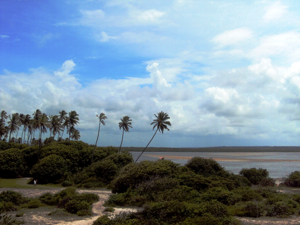 View of Barra do Rio Mamamguape, Paraíba State, northeastern Brazil.